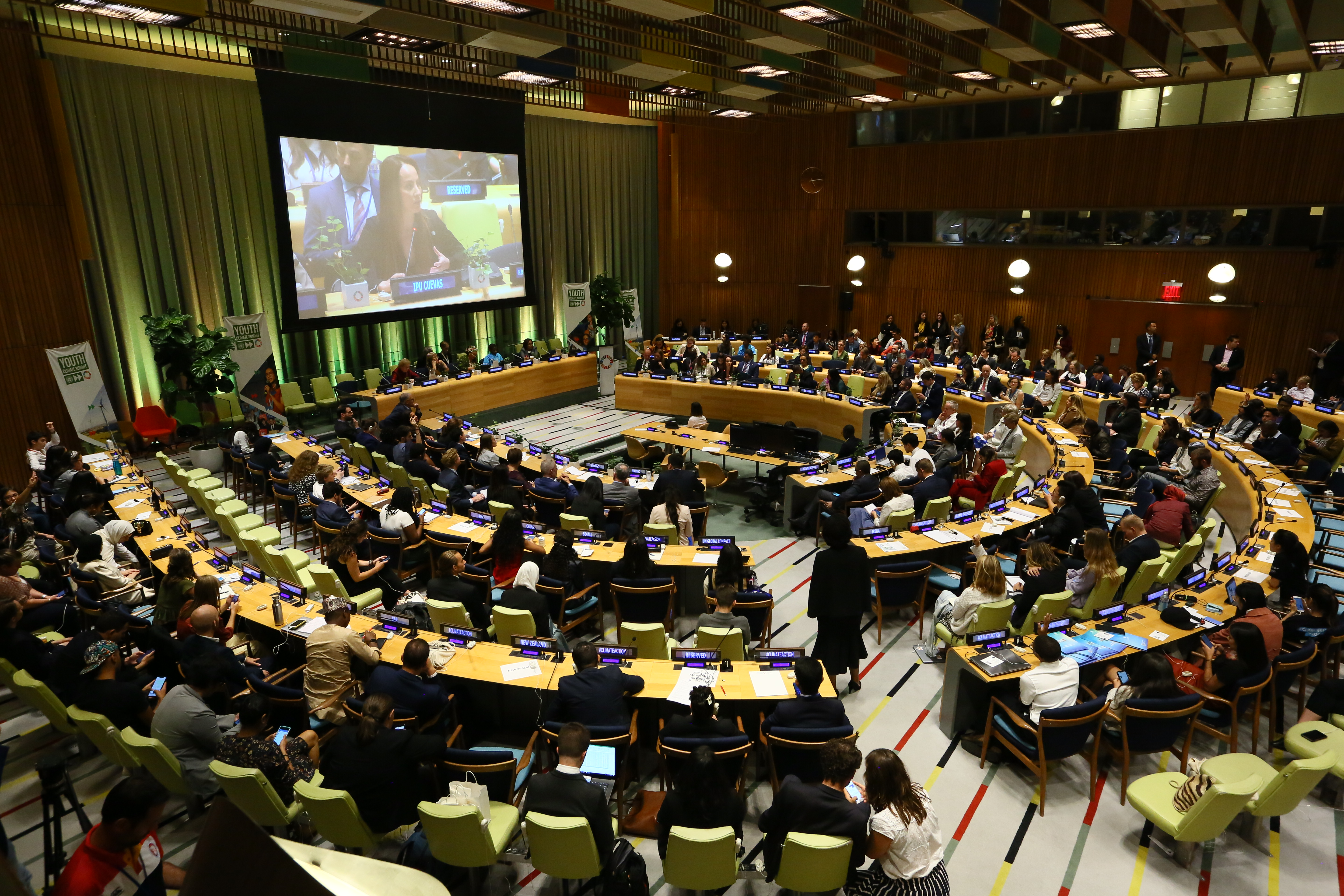 Youth Climate Summit at the United Nations in New York, Saturday, Sept. 21, 2019. (Photo/Stuart Ramson for UN Foundation)